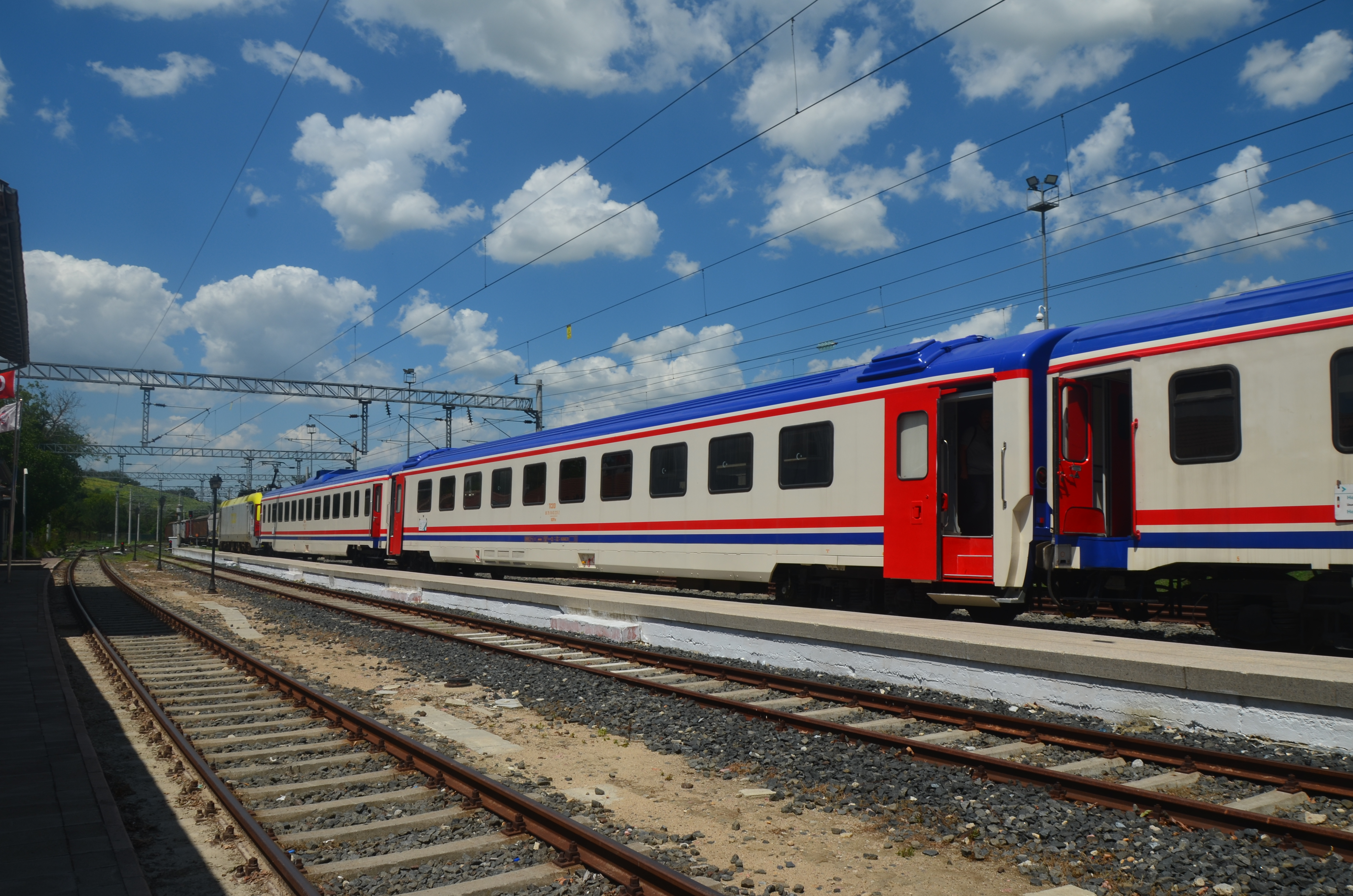 Trakya Regional Express